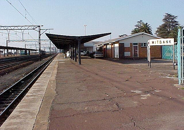 Witbank station, Mpumalanga